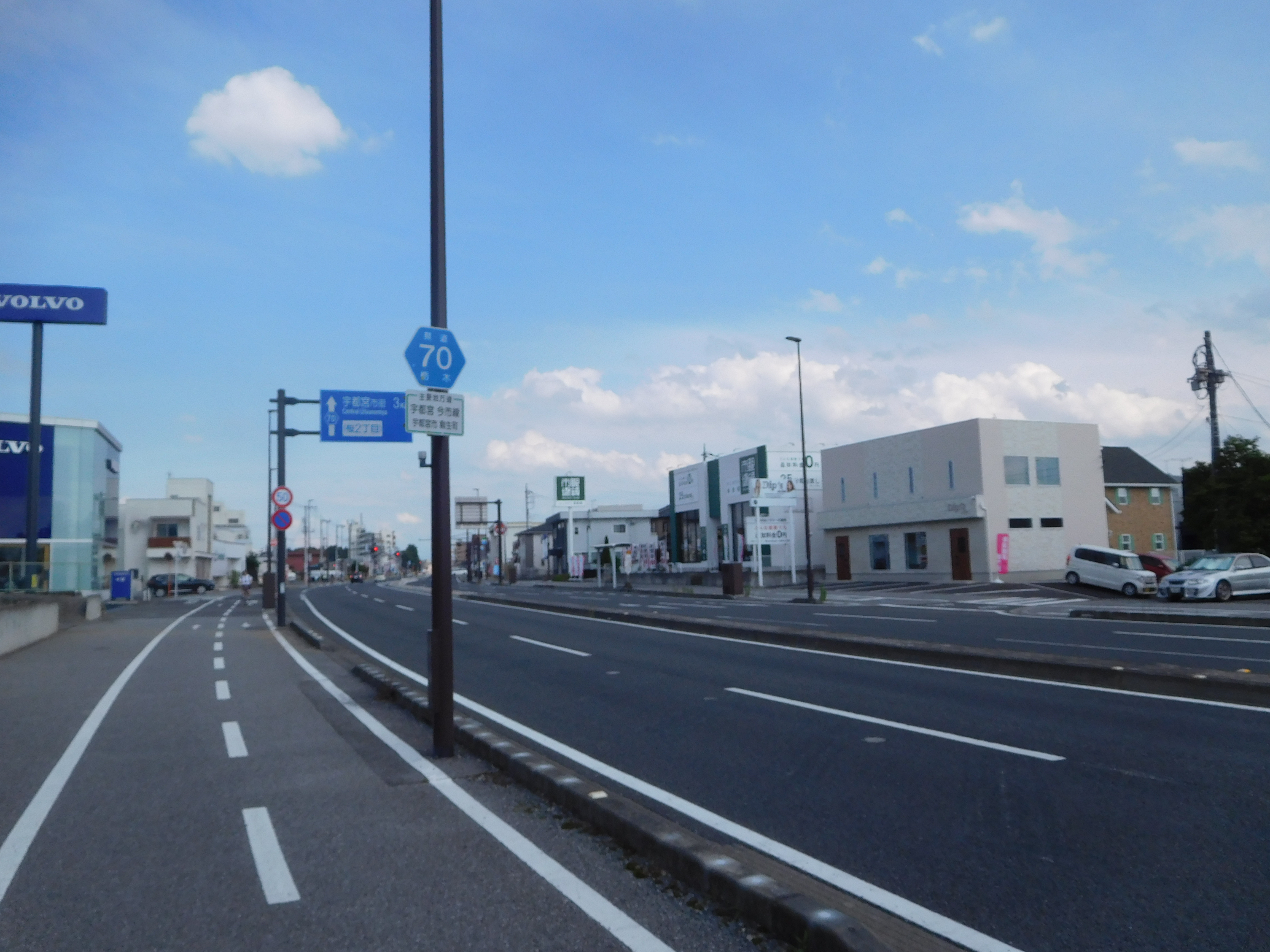 This is a landscape of Tochigi prefectural route 70 Utsunomiya-Imaichi line in kKomanyu, Utsunomiya, Tochigi, Japan.